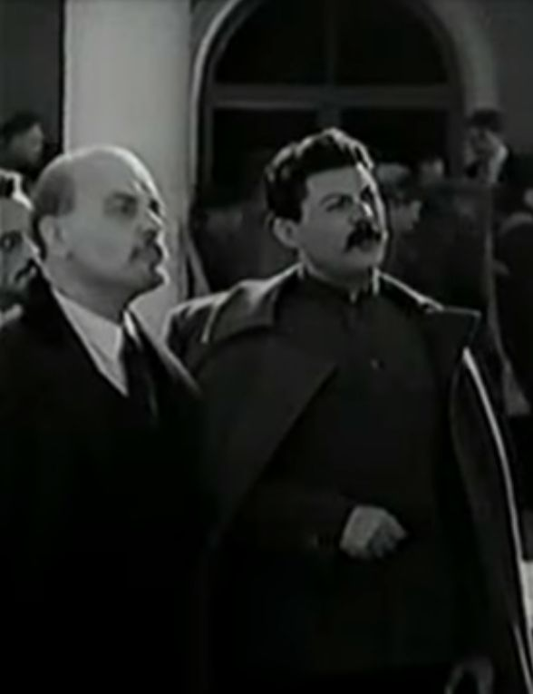 Konstantin Müfke as Vladimir Lenin, The Great Dawn movie still